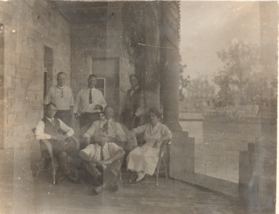 Jimbour is the main homestead on one of the earliest stations established on the Darling Downs, is important in demonstrating the pattern of early European exploration and pastoral settlement in Queensland, Australia.